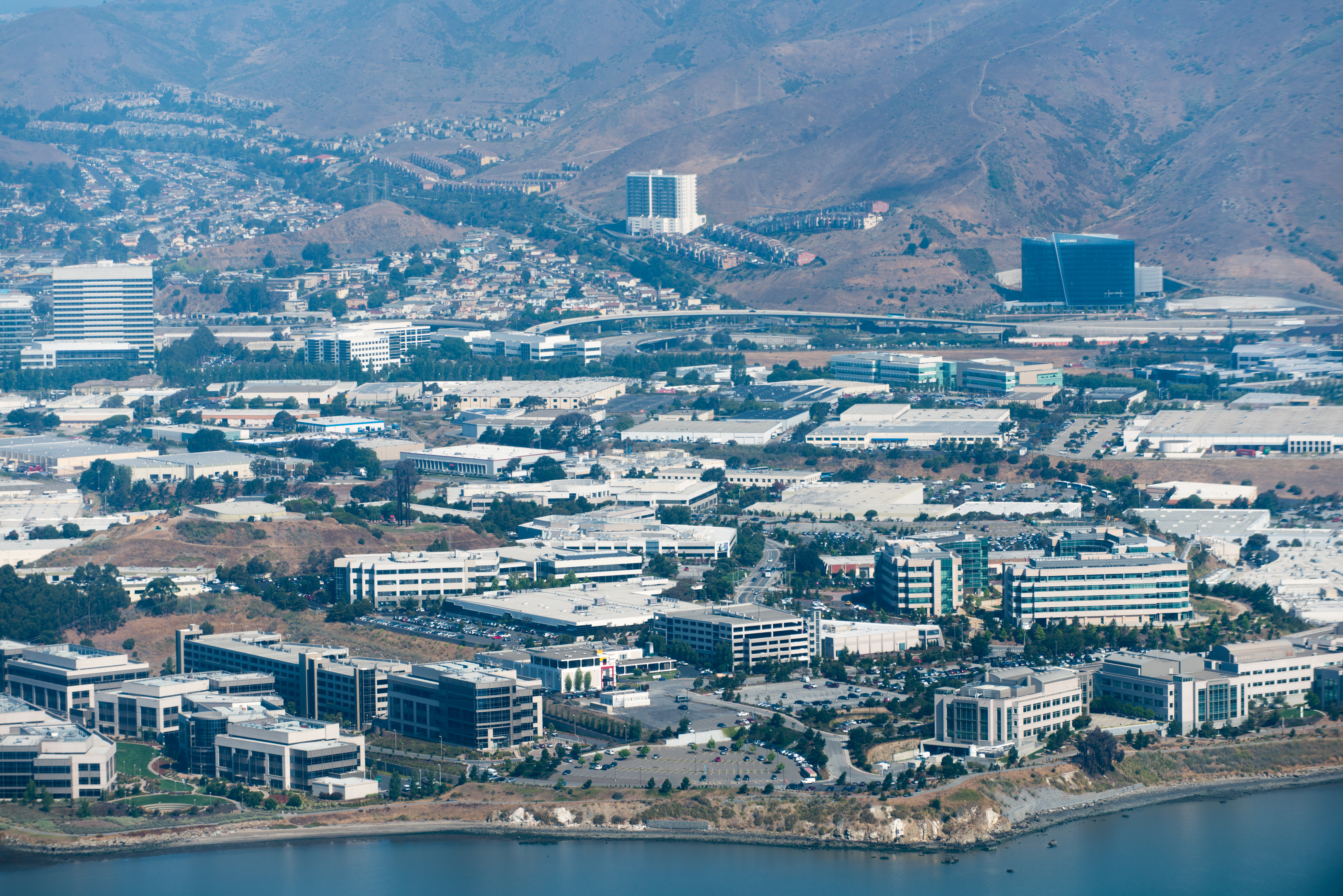 South San Francisco hills in background. Black building in rear right is Centennial Towers, now housing a SuccessFactors office. White building in rear center is Mandalay Towers.